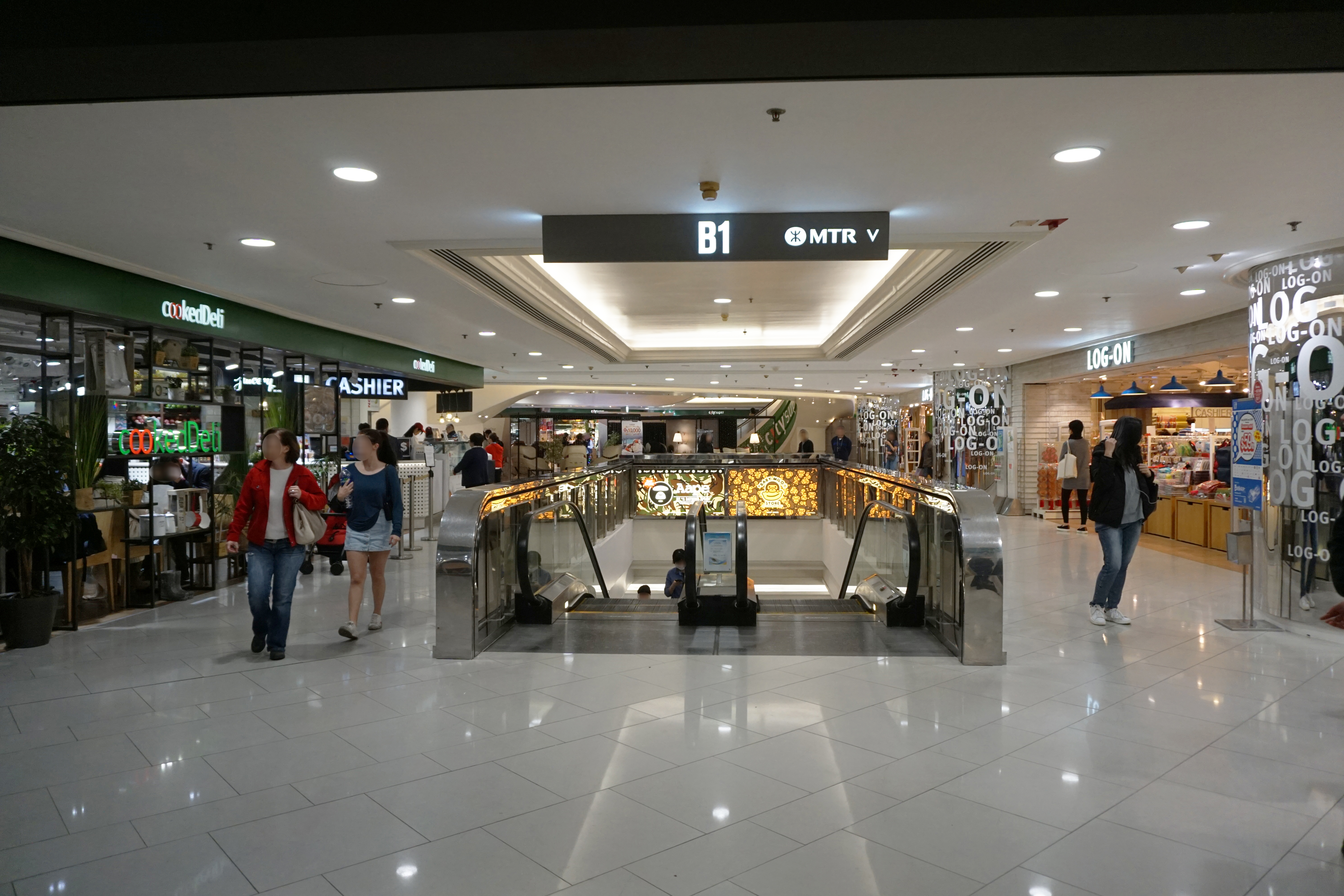 Times Square in Causeway Bay, Hong Kong.